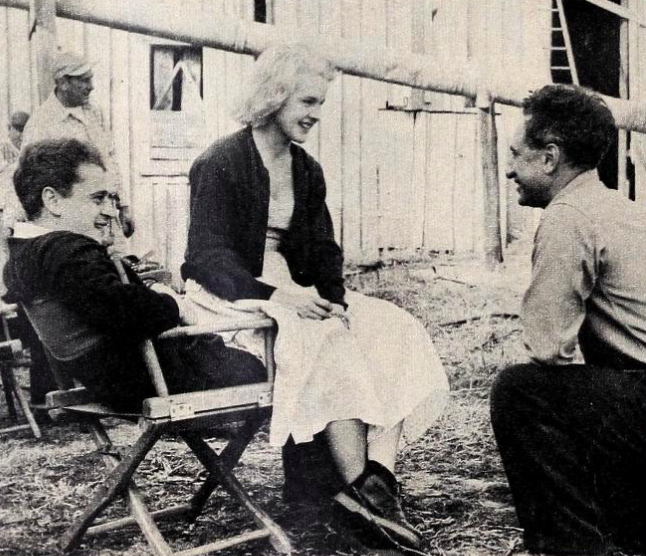 Jack Garfein, Carroll Baker, and Elia Kazan on the set of Babydoll (1956)